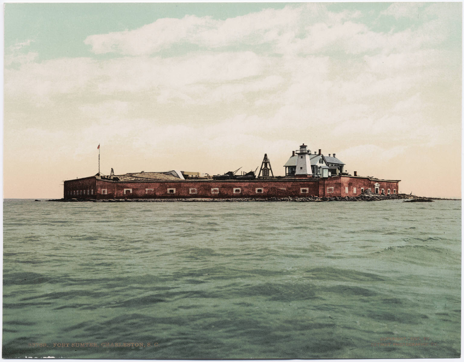 A photochrom postcard published by the Detroit Photographic Company.